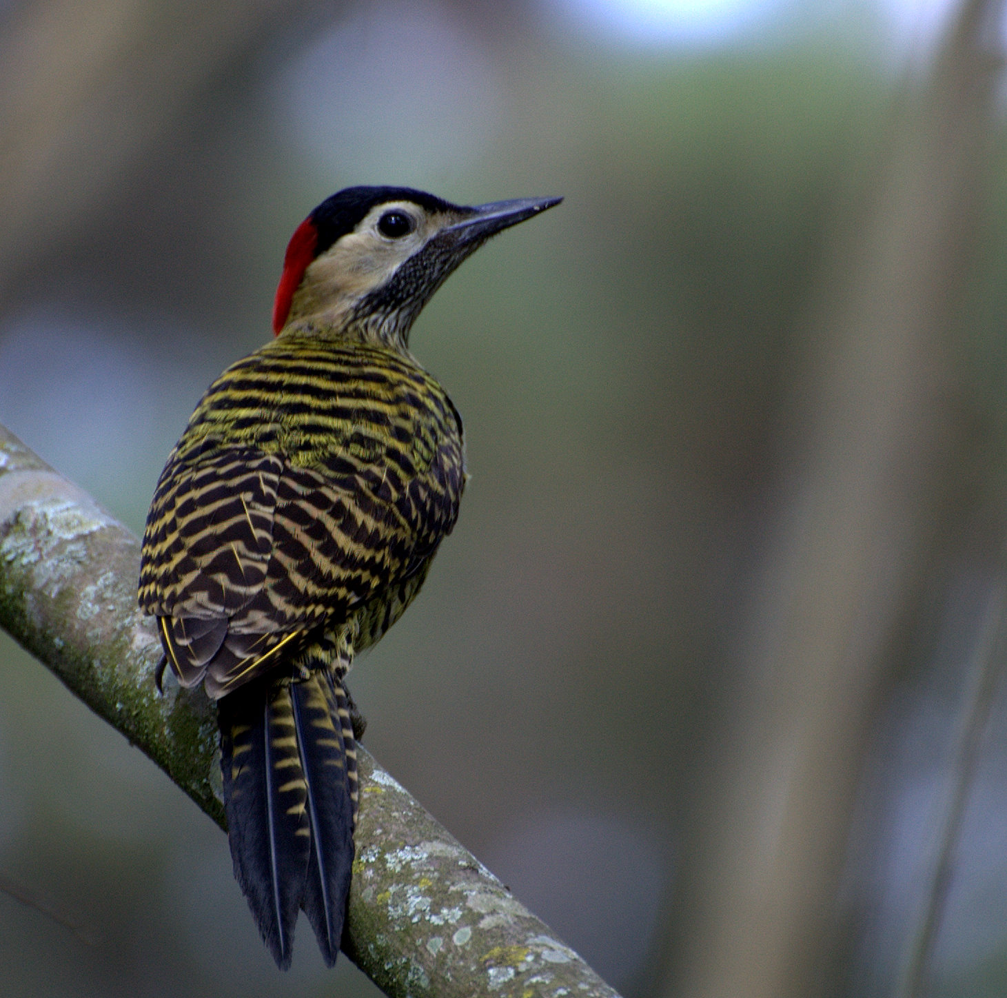 Horto Florestal de São Paulo Green-barred Woodpecker (Colaptes melanochloros)